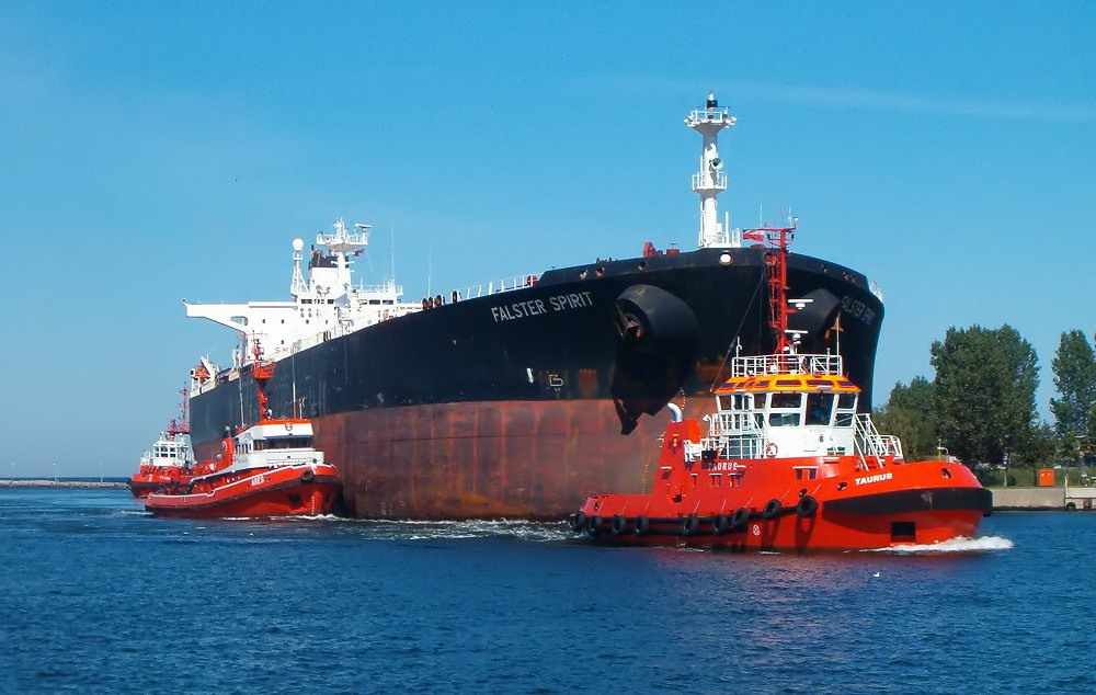 Oil tanker FALSTER SPIRIT and tugboats TAURUS and ARES entering the port in Gdansk, Poland. Falster Spirit: IMO Number: 9083287 MMSI Number: 308634000 Callsign: C6FI8 Length: 244 m Beam: 42 m Flag: Bahamas Tugboat Taurus: IMO number: 9240354 MMSI Number: 261003330 Callsign: SPG2952 Length: 30 m Beam: 10 m Flag: Poland Tugboat Ares IMO Number: 7642144 MMSI Number: 261000200 Callsign: SQLQ Length: 33 m Beam: 9 m Flag: Poland